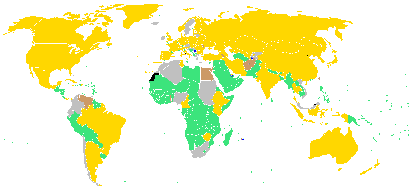 Gold for countries achieving at least one gold medal.Grey for countries achieving at least one silver medal.Brown for countries achieving at least one bronze medal.Green for countries that didn't get any medal.Black for countries that did not participate.A yellow square displays the host city (Beijing).Blue asterisks display countries achieving their first medal ever in a Summer Olympics.